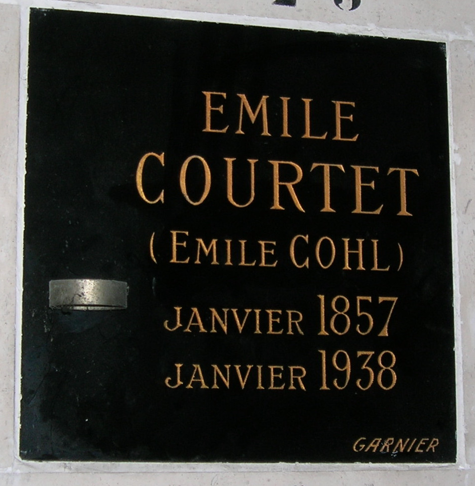 Urn-grave with commemorative plaque of Émile Cohl in the columbarium of the Père-Lachaise Cemetery (Paris, France)